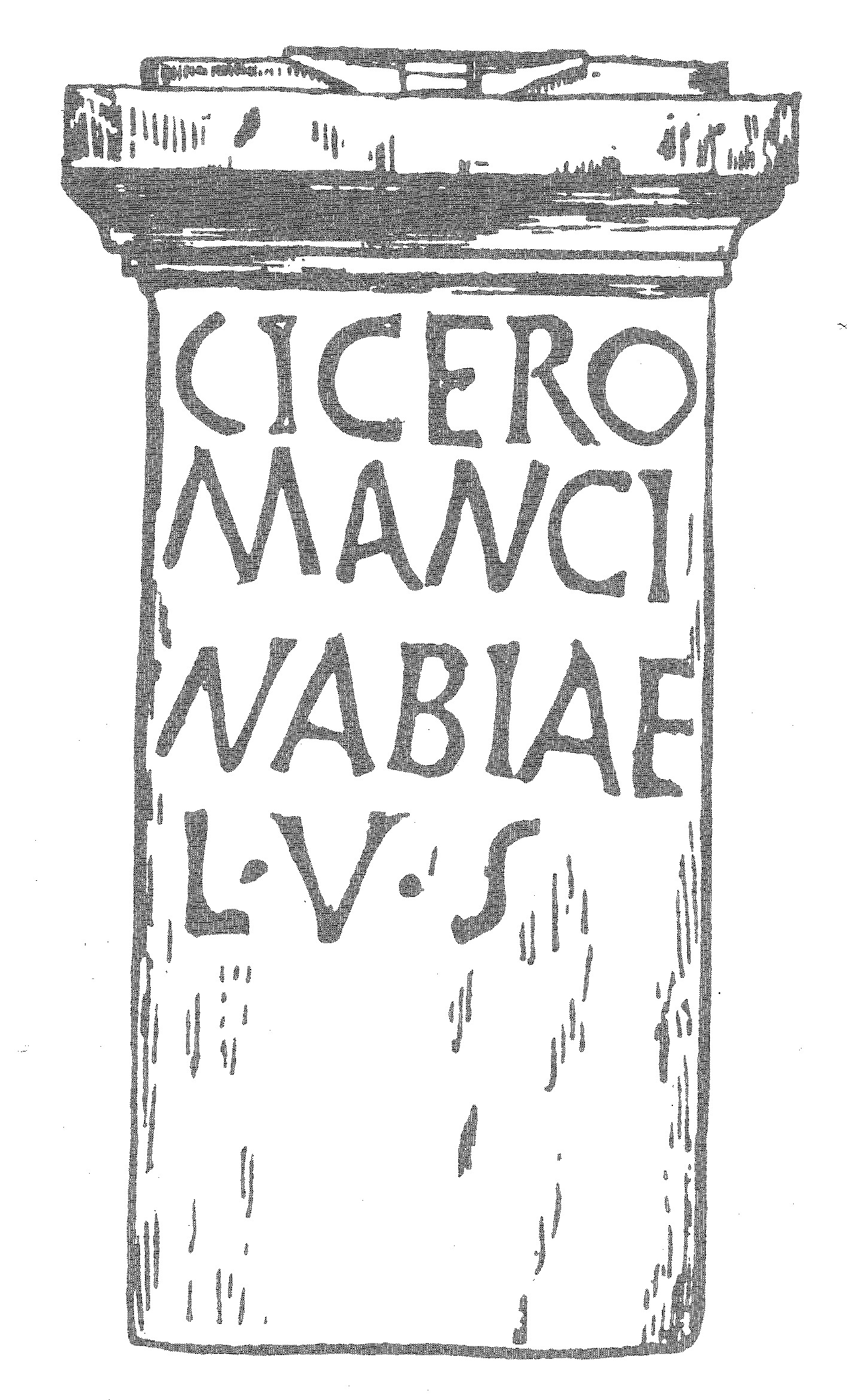 A roman inscription; sketch by Leite de Vasconcelos